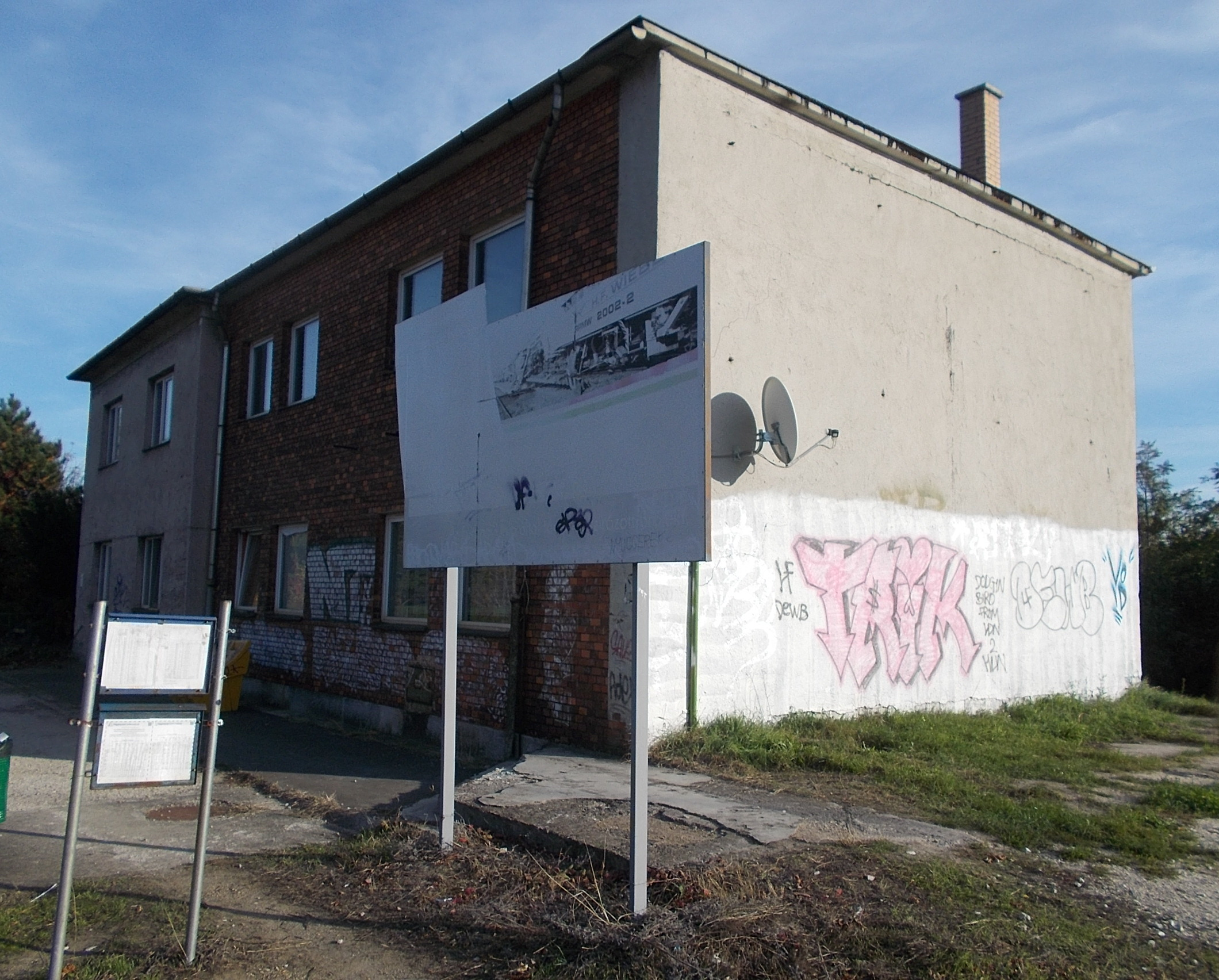 Törökbálint railway station on Budapest–Hegyeshalom–Rajka railway line. - Vasút Street, Törökbálint, Pest County, Hungary.